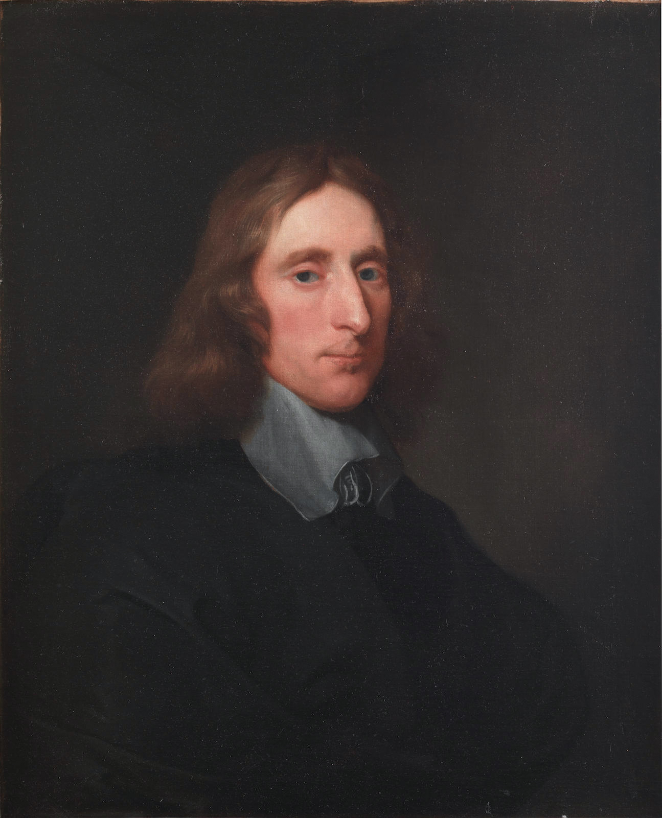 Richard Cromwell (1626-1712), 2nd Lord Protector of England, Scotland and Wales oil on canvas 73 x 61 cm 1644 - 1681